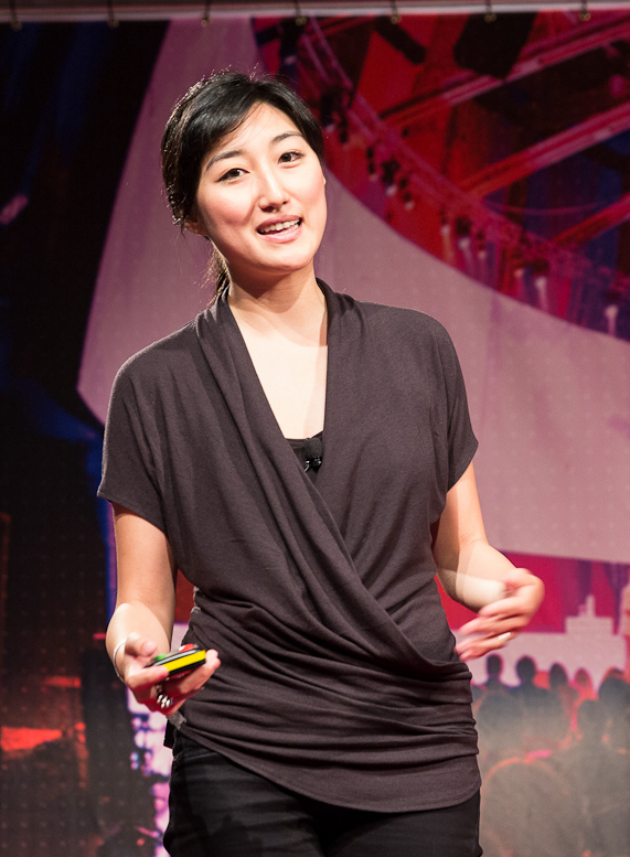 The Next Web USA 2013